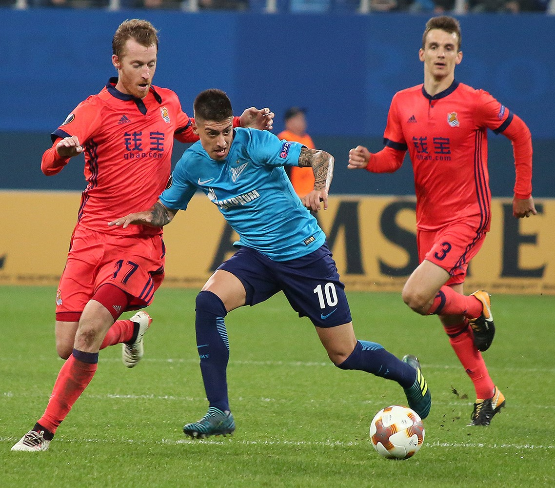 Diego Llorente, Emiliano Ariel Rigoni, David Zurutuza